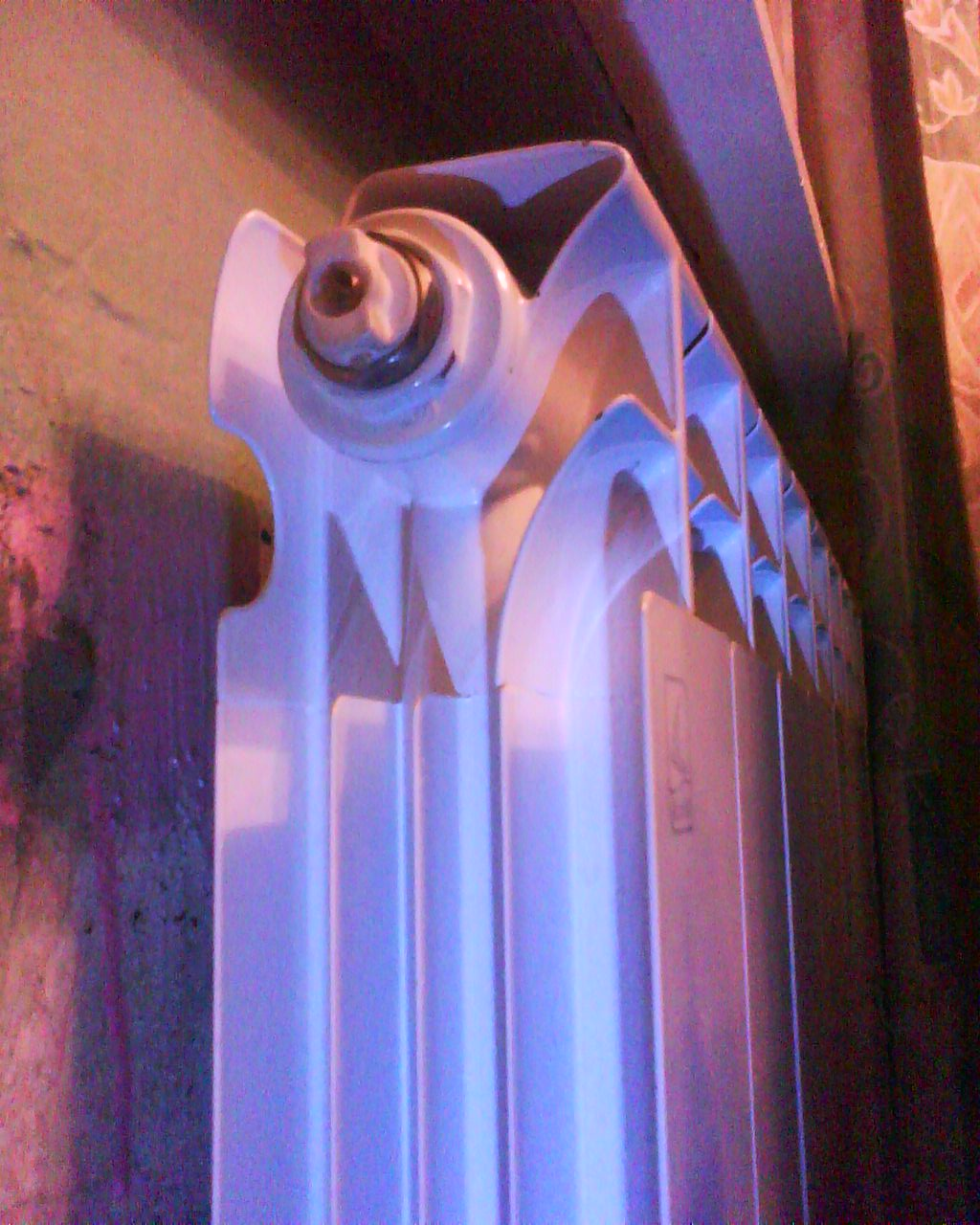 Crane of Ch. B. Maevsky on a steel finned radiator